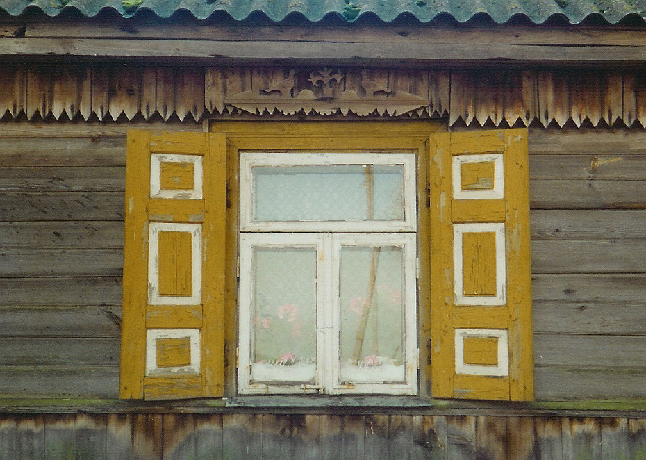 The window in a small manor house in Ziomaki